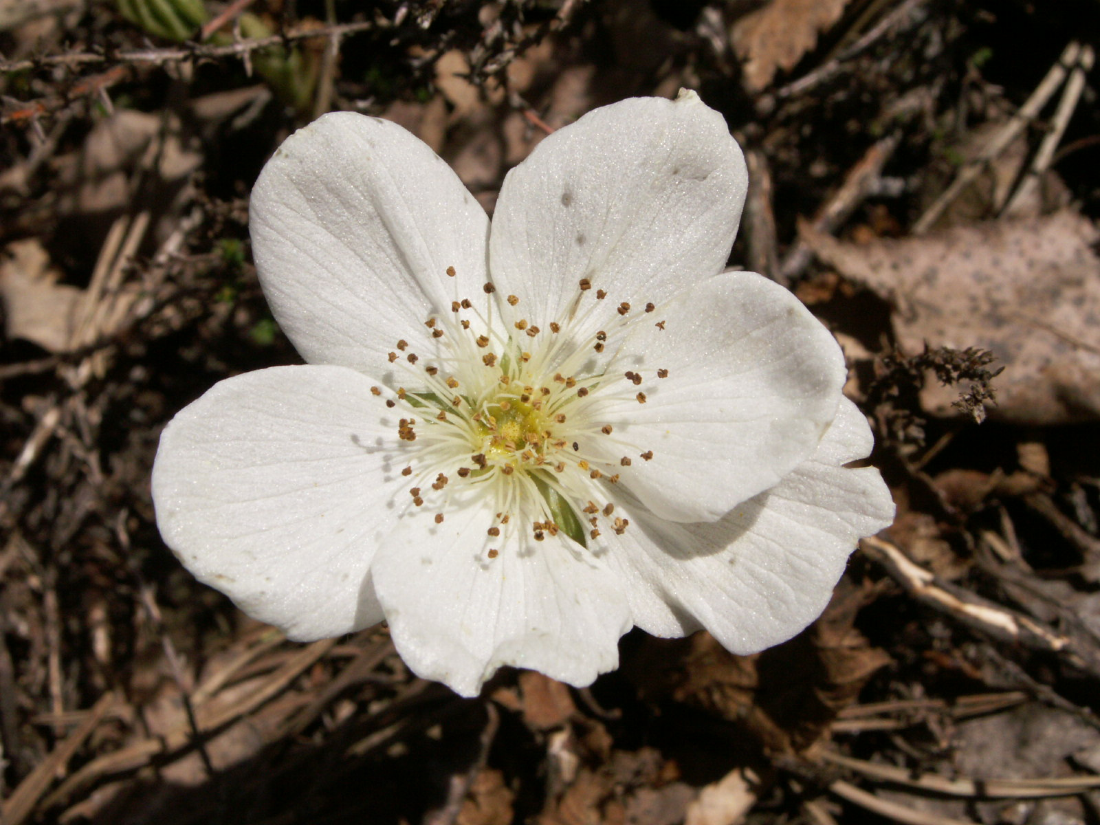 Rubus chamaemorus flower male